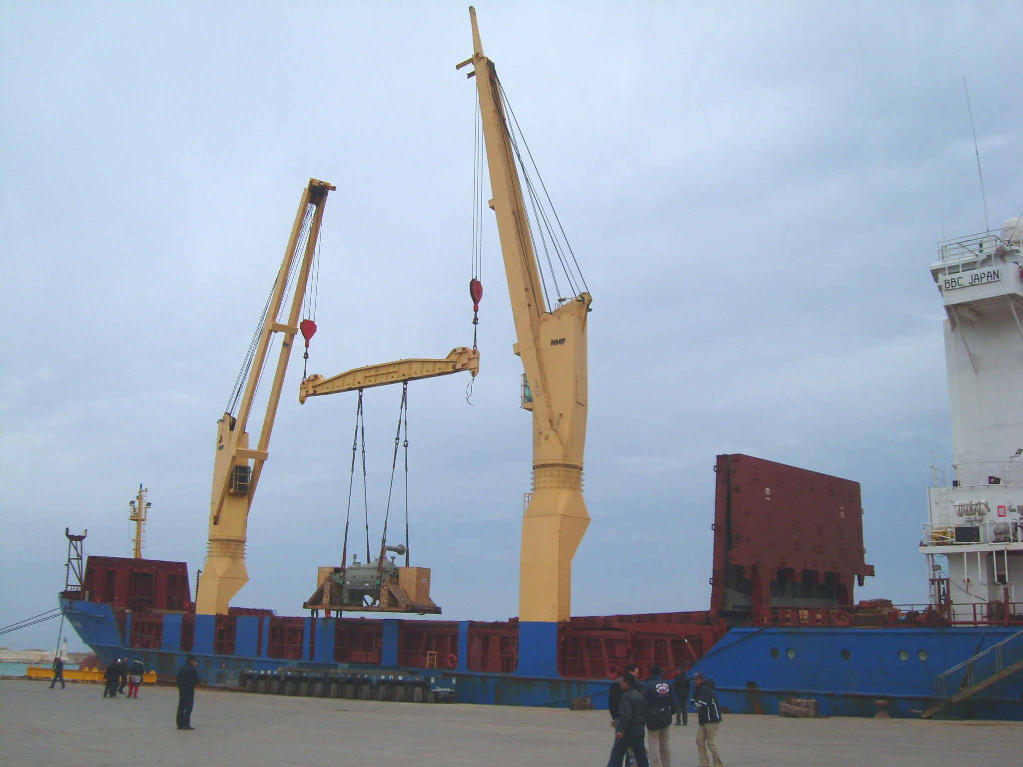 The heavylift ship "BBC Japan" is unloading in Tenes, Algeria IMO Number: 9224611 MMSI Number: 304196000 Callsign: V2AU4 Length: 140 m Beam: 14 mDansk: Algeriet, Tenes: Heavylift skib "BBC Japan" losser